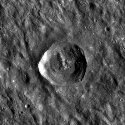 LROC . Grachev lies on top of northeast Orientale basin ejecta blanket.